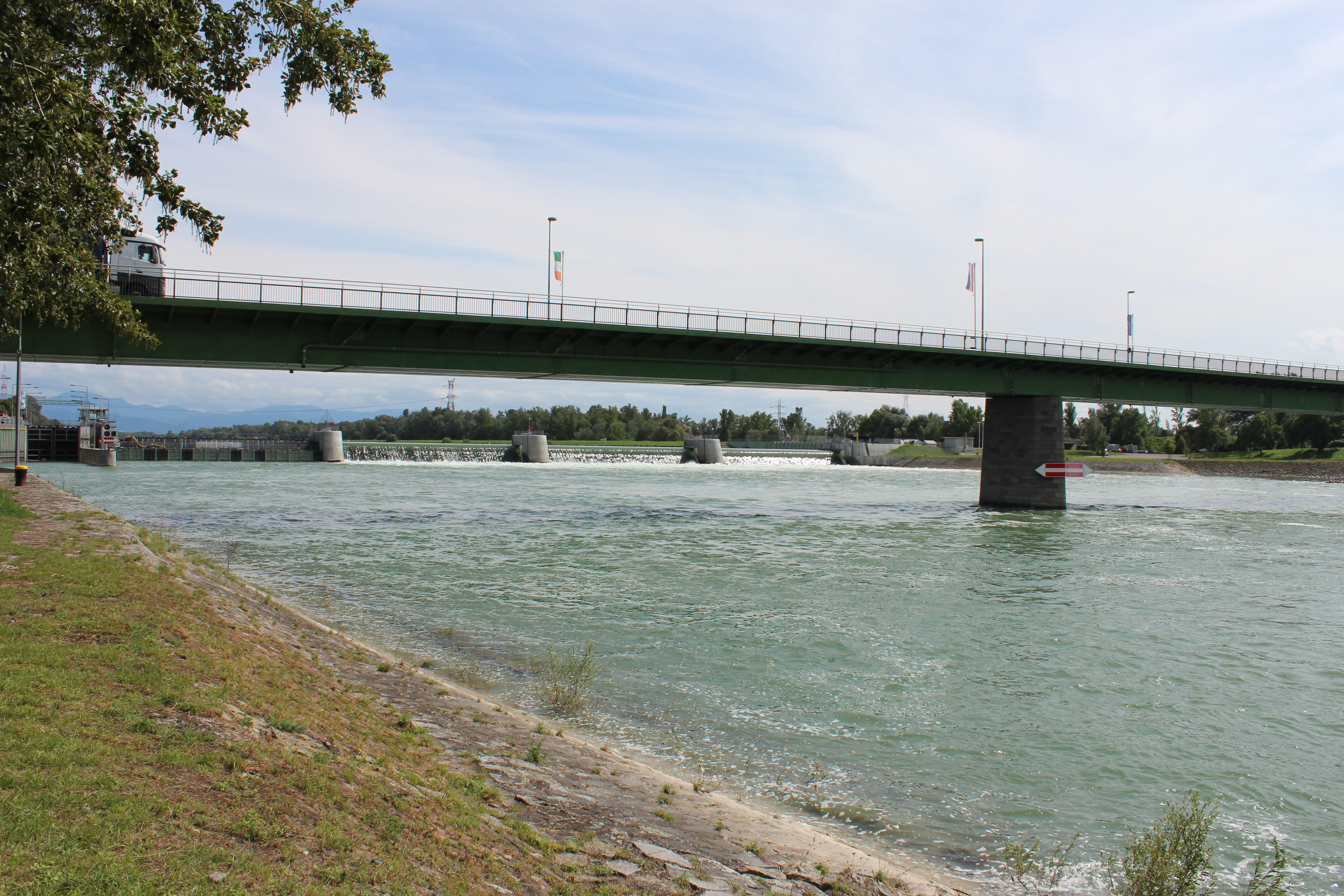 Bridge over the Rhine from Breisach (Germany) to Neuf-Brisach (France) with Weir